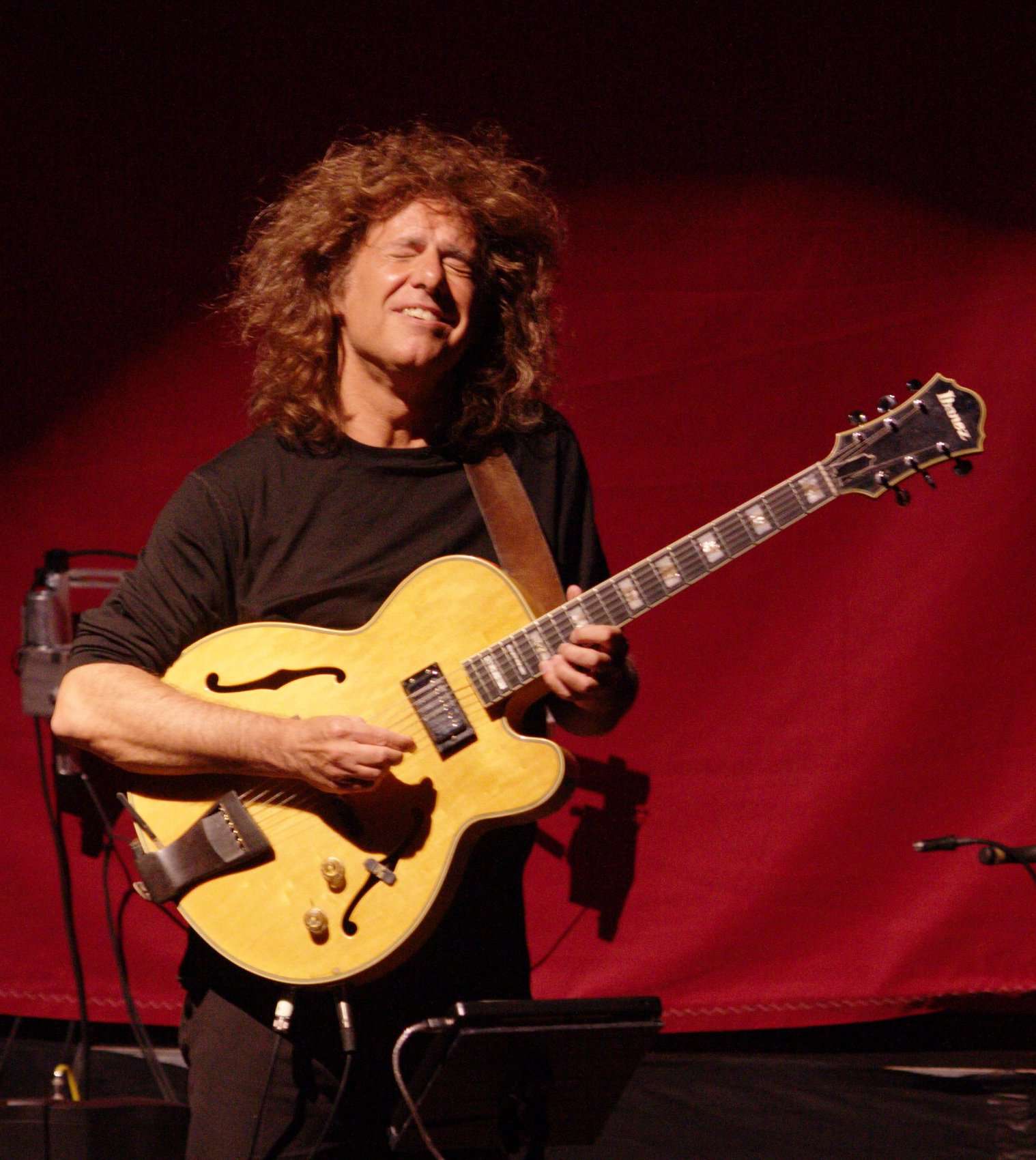 Cropped from original; Pat Metheny and the Orchestrion Project at the Nokia in Grand Prairie, Texas on Tuesday, 13 April 2010.